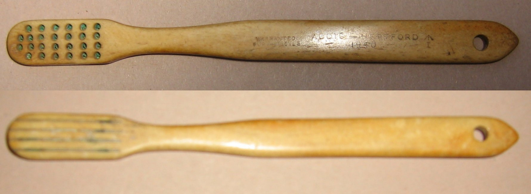 Bone toothbrush found on SS Breda. Front and back view of a light brown toothbrush. The back of the toothbrush has four grooves running lengthwise along the head. The front has five rows of holes at the head and an inscription on the handle. The inscription reads "WARRANTED PURE BRISTLE" "ADDIC HERTFORD 1940"